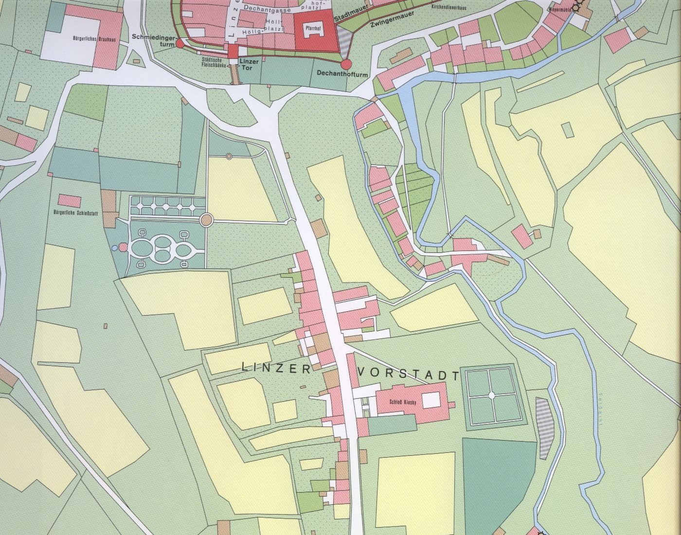 Area of Castle Kinsky in Freistadt, Upper Austria